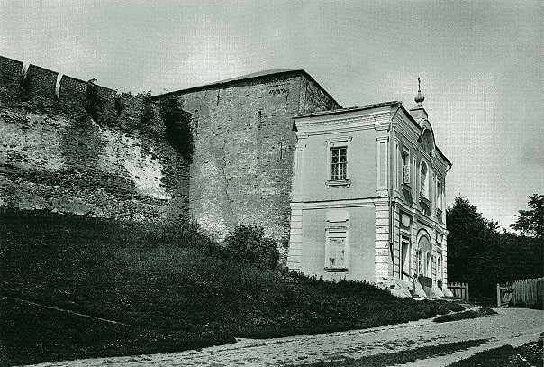 St. Nicholas Chapel (Vladimir tower)